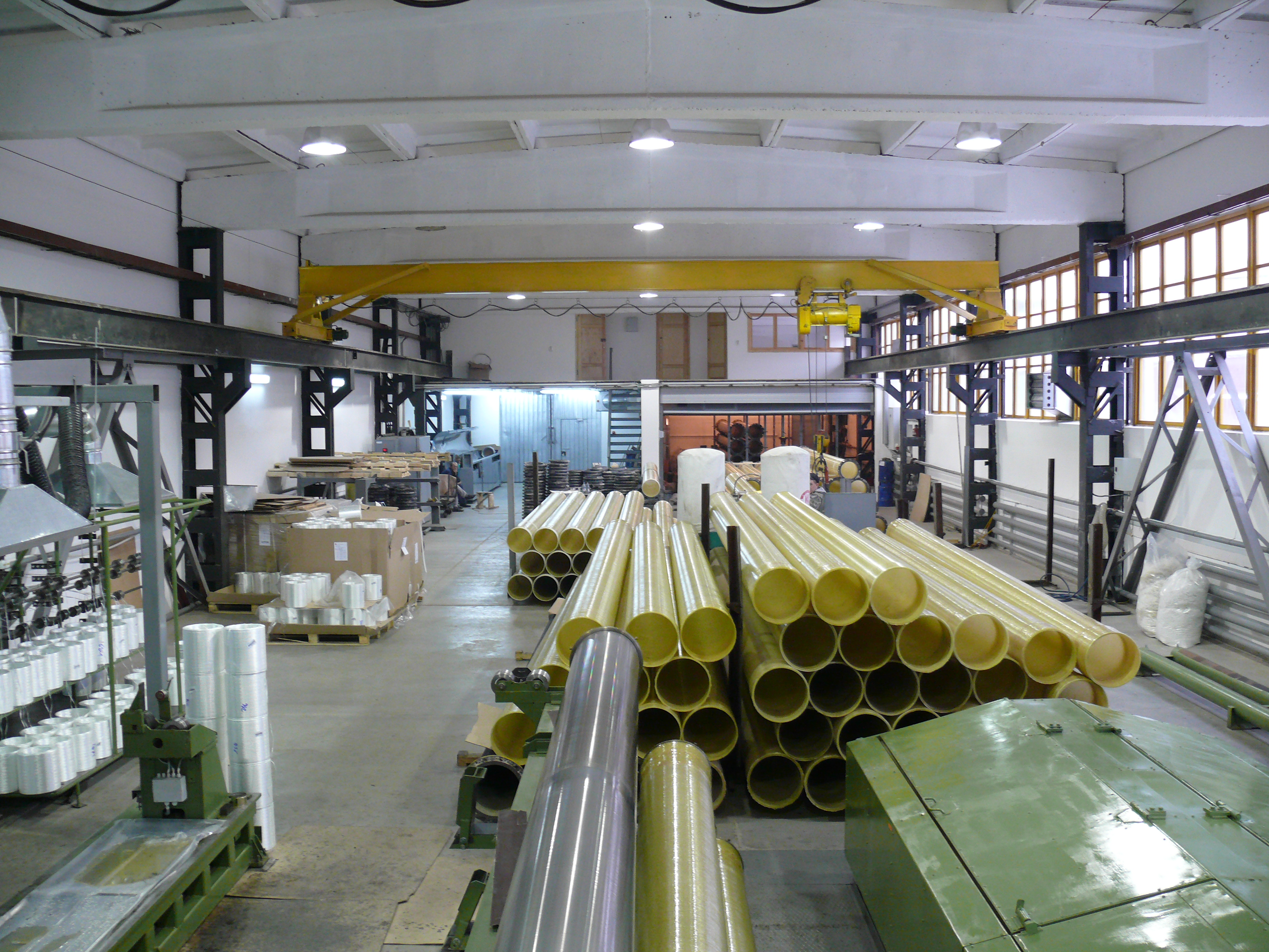 Fiberglass pipes workshop